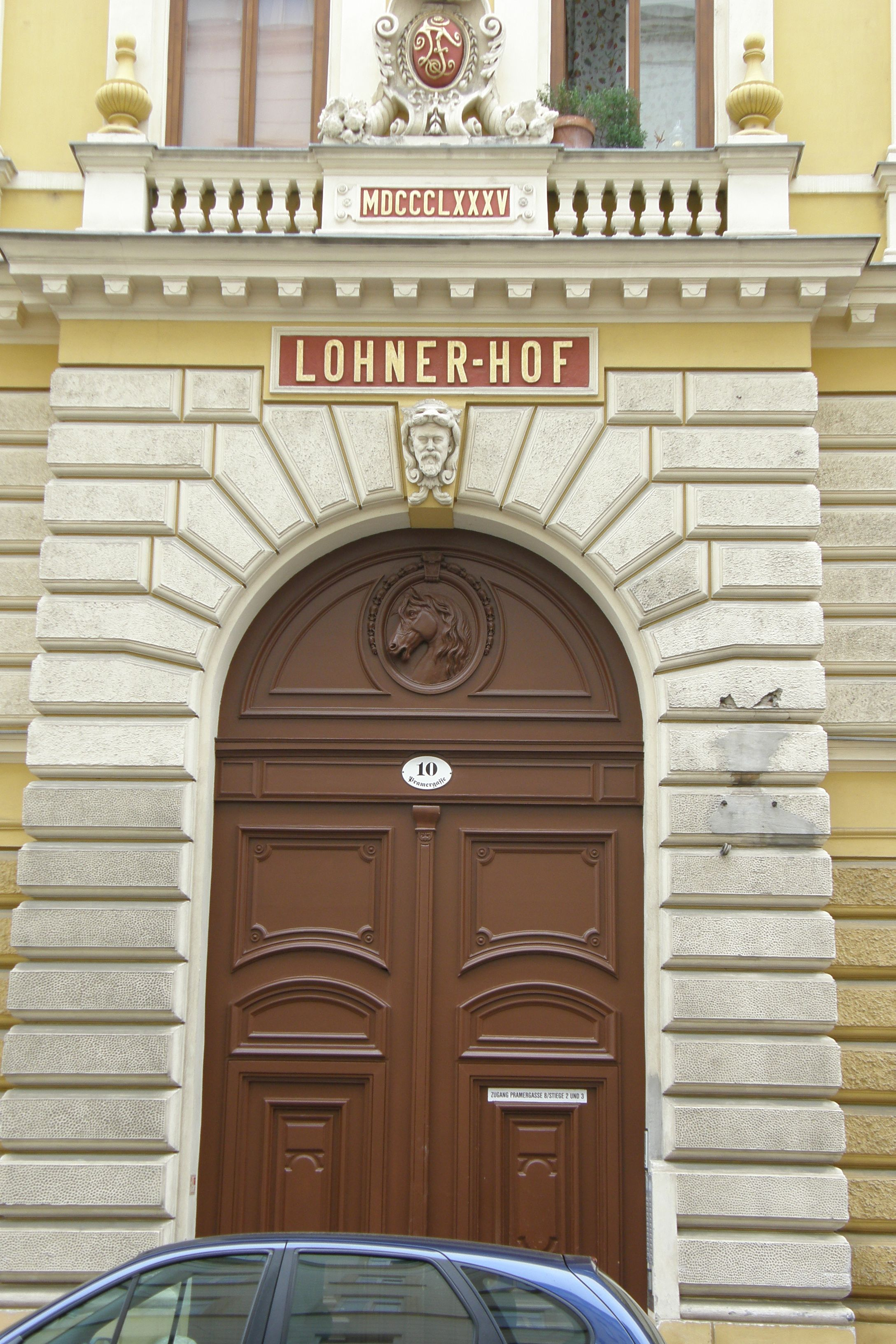 Lohnerhof Vienna build by Alois Sallatmeyer 1984 - 1985